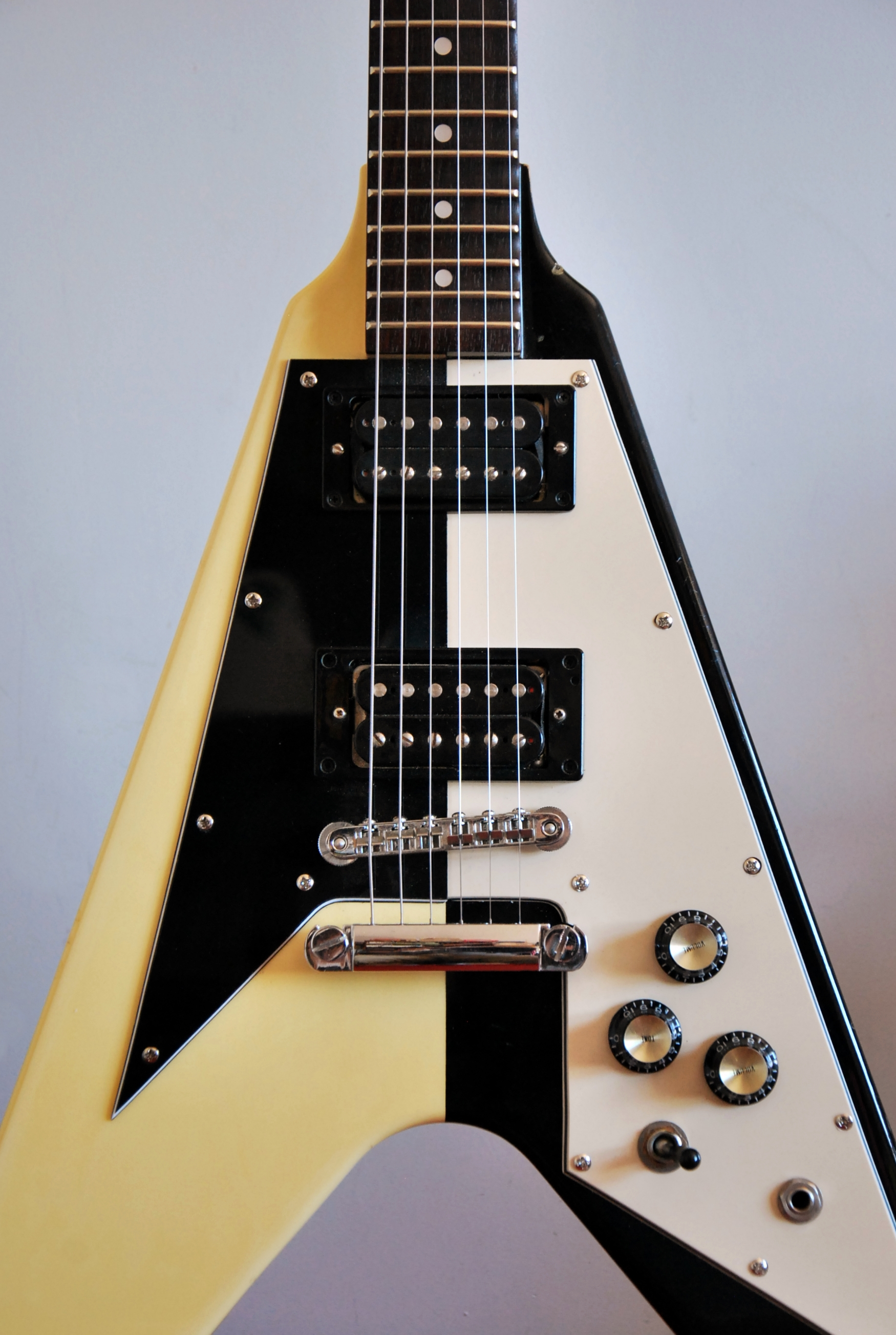 1984 Greco MSV650 Michael Schenker Signature 1984 MiJ Greco MSV650 Michael Schenker Signature (or "inspired by") guitar featuring original specs. Amazing tone? Check. Custom made black/cream pickguard to optimize look. Strat-type knobs have been changed by Gibson Flying V type knobs. Note the scalloped fingerboard from 12th on first strings. Body color has been aging... Flickr Tags: greco Japanese GUITAR Flying V VINTAGE 80s Michael Schenker Fernandes.